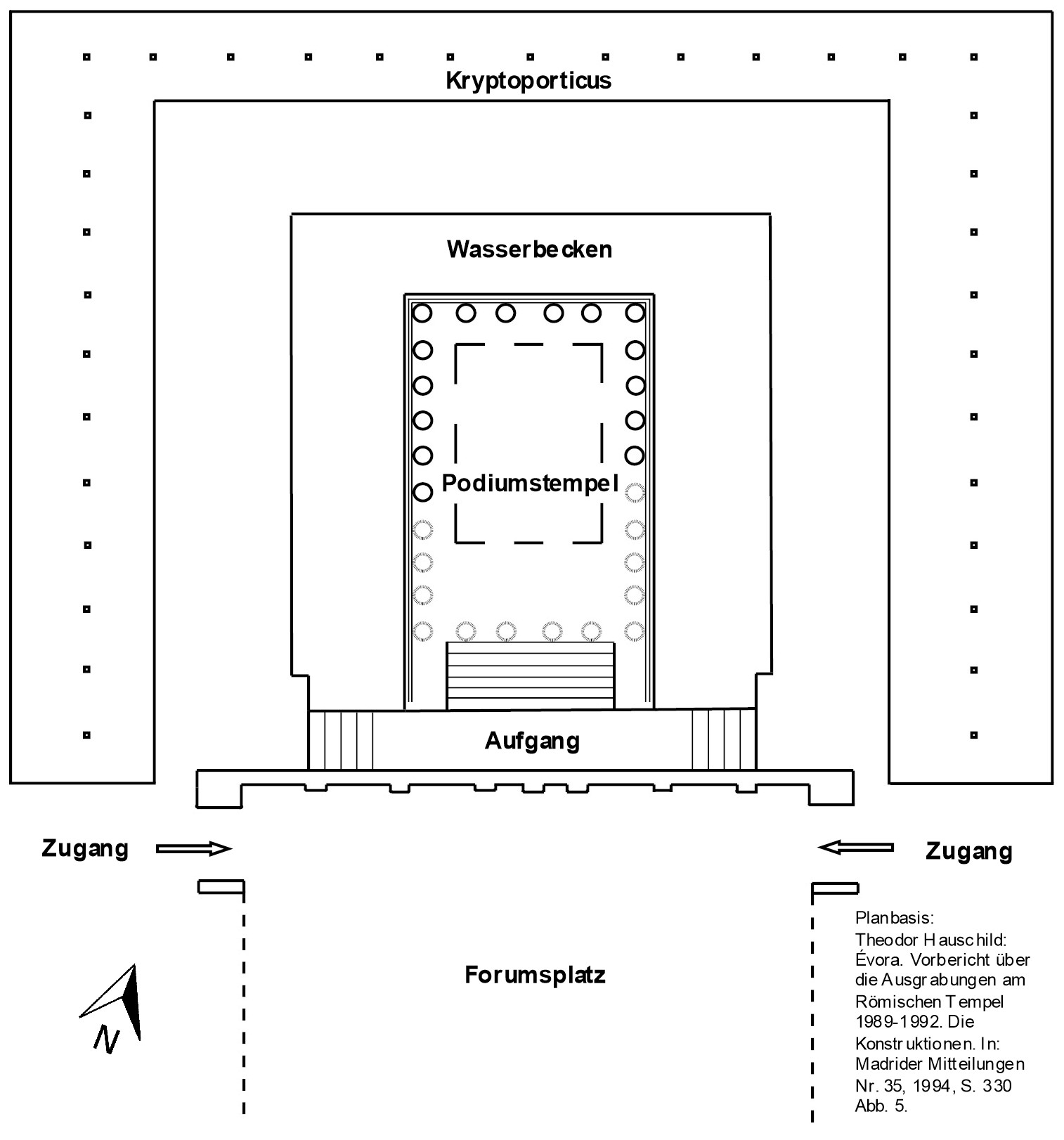 Plan of the Roman temple at the forum of Évora.